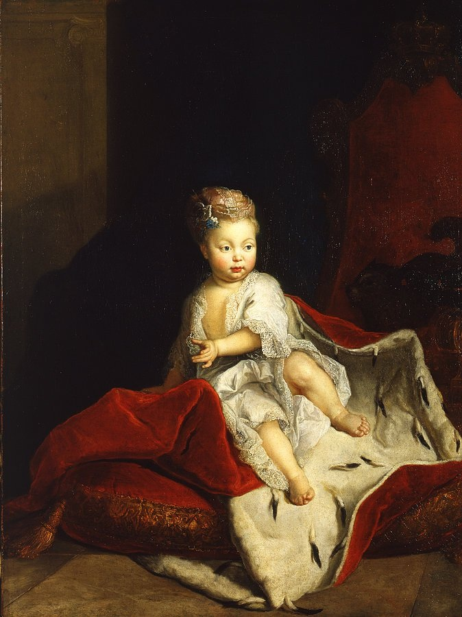 Princess Wilhelmine at the age of two